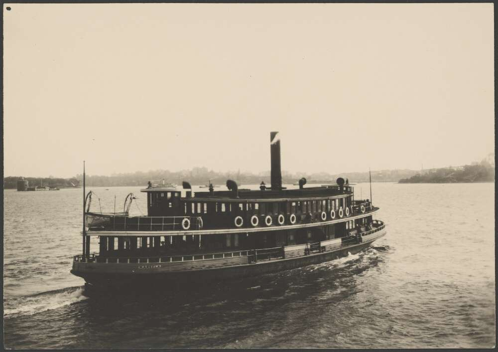 Sydney ferry Kareela (built 1905 - 1959) on Sydney Harbour ca. 1930